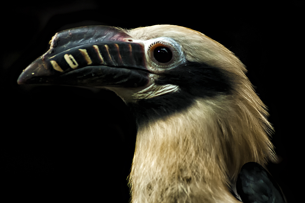 The Visayan hornbill (Penelopides panini) is a hornbill found in rainforests on the islands of Panay, Negros, Masbate, and Guimaras, and formerly Ticao, in the Philippines. It formerly included all other Philippine tarictic hornbills as subspecies, in which case the common name of the 'combined species' was shortened to tarictic hornbill.